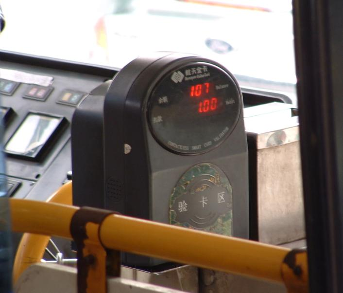 Yang Cheng Tong (Ram City Pass) Cards Reader (1st generation) in Guangzhou Buses.